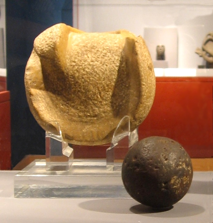 A solid rubber ball used or similar to those used in the Mesoamerican ballgame, from Kaminaljuyu, 300 BC to 250 AD. With a manopla, or handstone, used to strike the ball, also from Kaminaljuyu, 900 BC to 250 AD. The ball is 3 inches (almost 8 cm) in diameter, a size that suggests it was used to play a hand ball. A mitten-shaped space has been carved out for the player's hand. The handstone was probably strapped in place. The far side of the stone is worn nearly smooth where it struck the ball, putting spin on it. Traces of rubber still adhere to the surface.